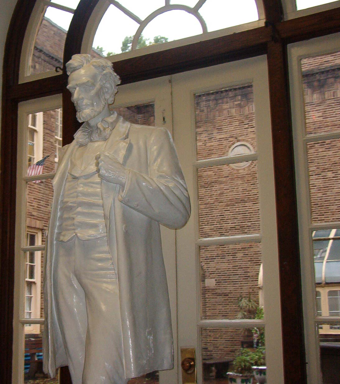 Side view of Lincoln statue, FSHS